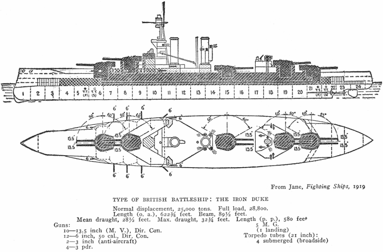 Iron Duke class battleship - credited to Jane's Fighting Ships, 1919